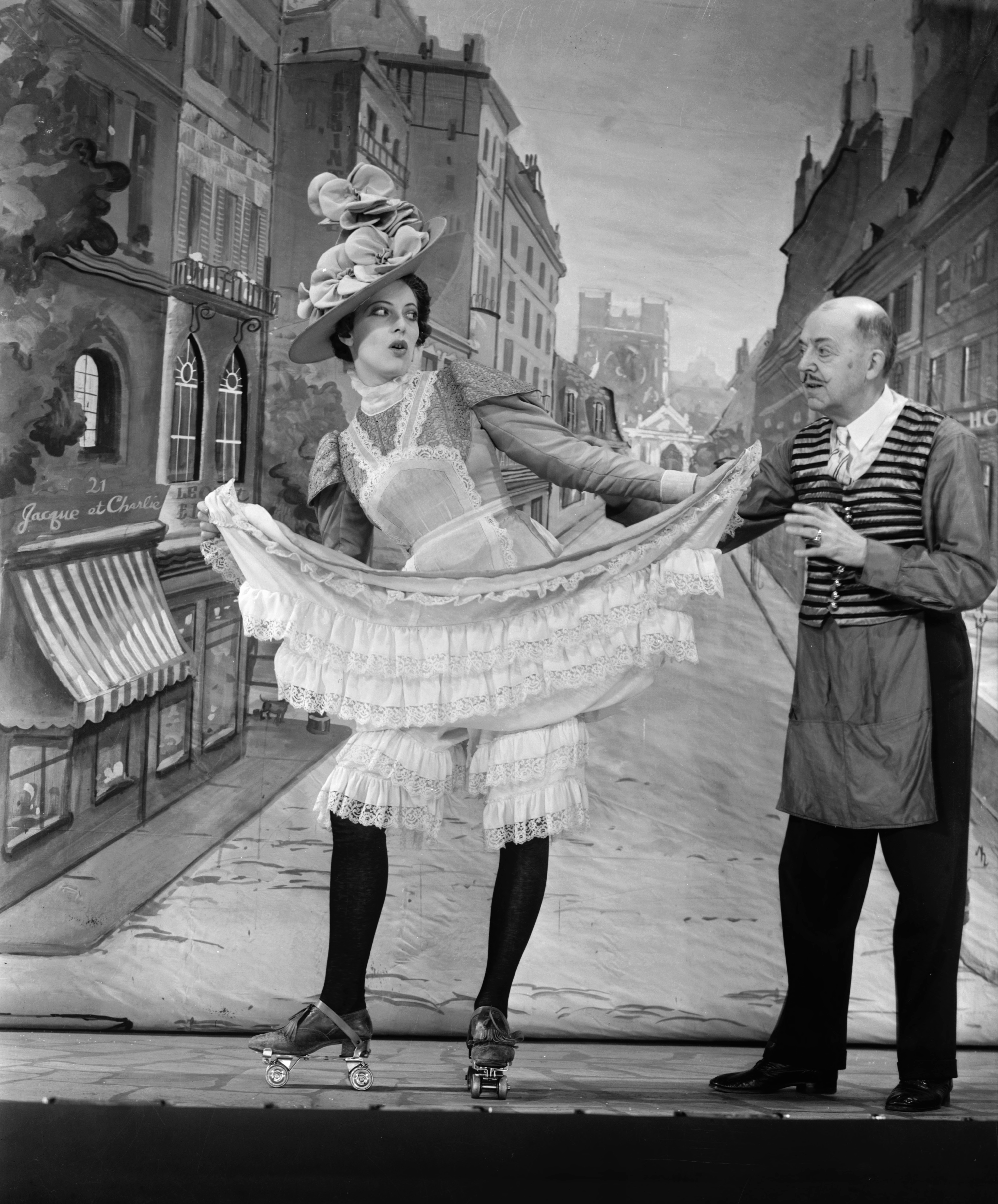 Photograph of Henriette Kaye (Daisy) and Harry McKee (Joseph) in the Federal Theatre Project production of Horse Eats Hat at Maxine Elliott Theatre